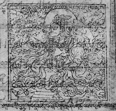 Jamyang Drag (´jam dbyangs grags), a mythological king of Shambhala, according to a Tibetan blockprint of the Vaidurya dkar po (1685)